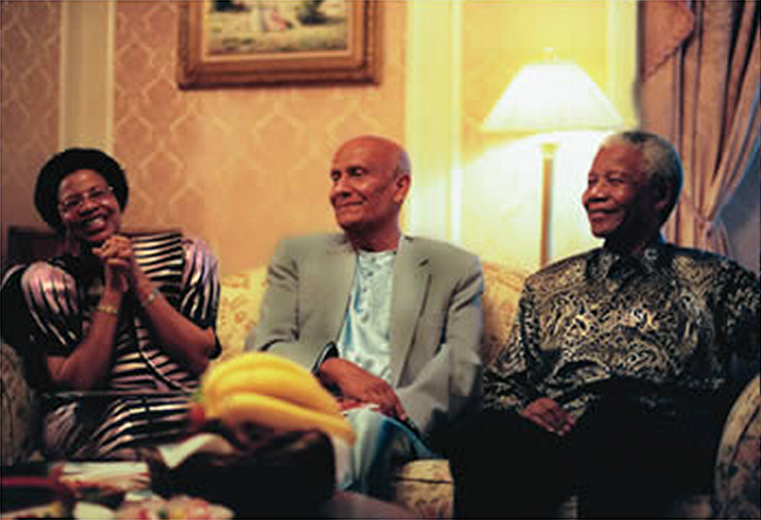 Graça Machel, Sri Chinmoy and Nelson Mandela.